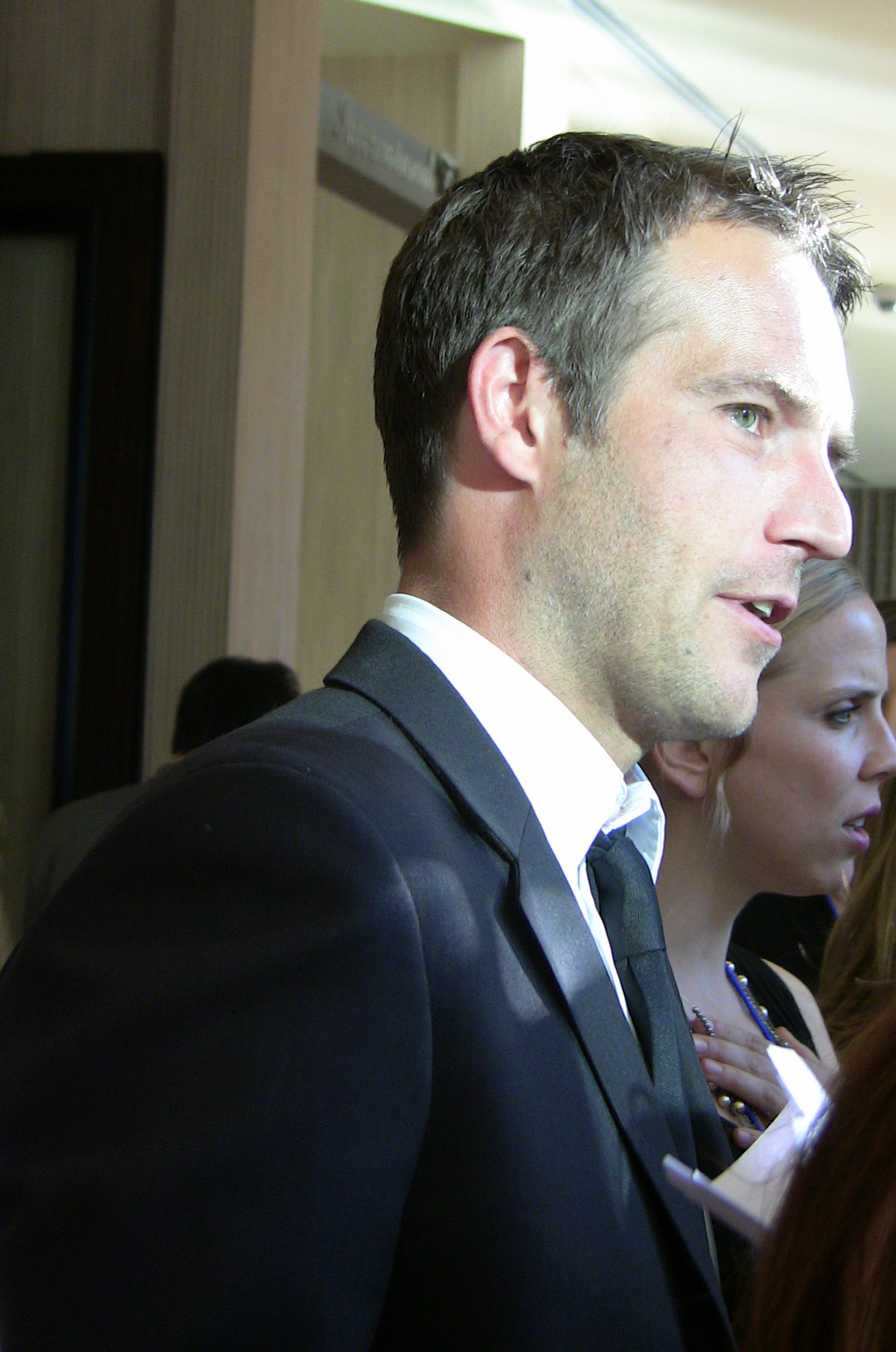 Actor Michael Vartan at 23rd Genesis Awards - Beverly Hills, California.